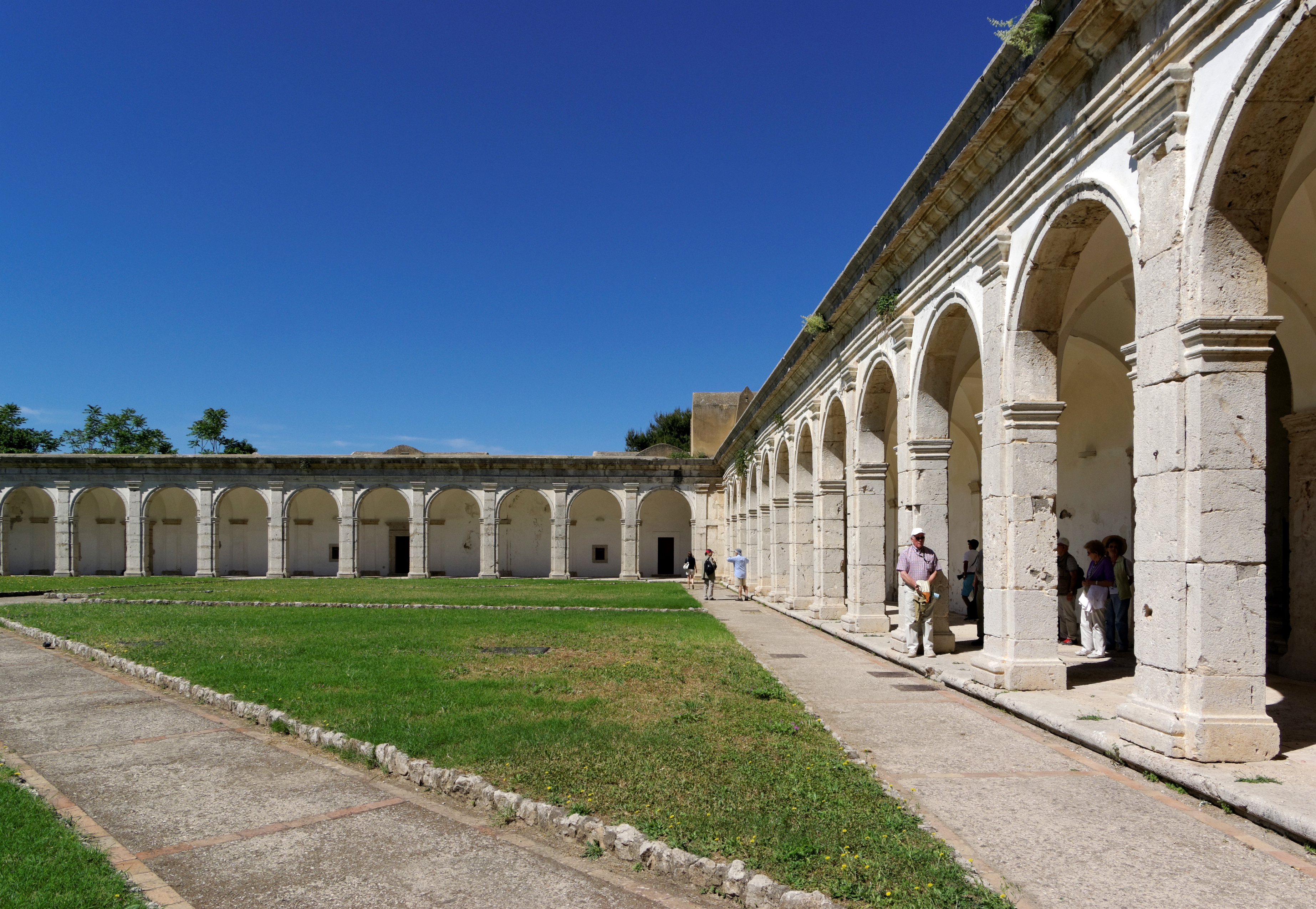 Capri, Certosa di San Giacomo